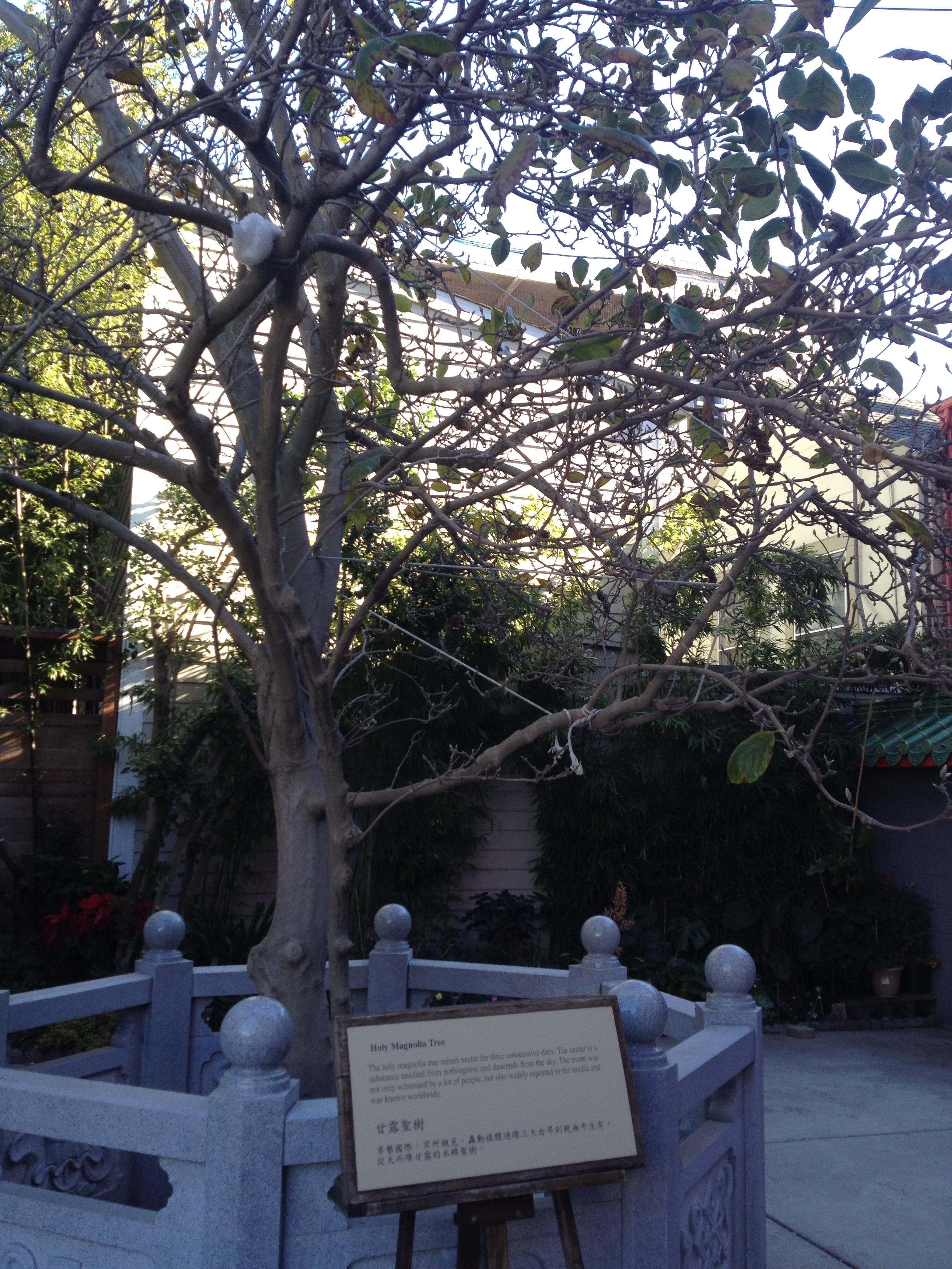 Hua Zang Si tree that was having holy rain